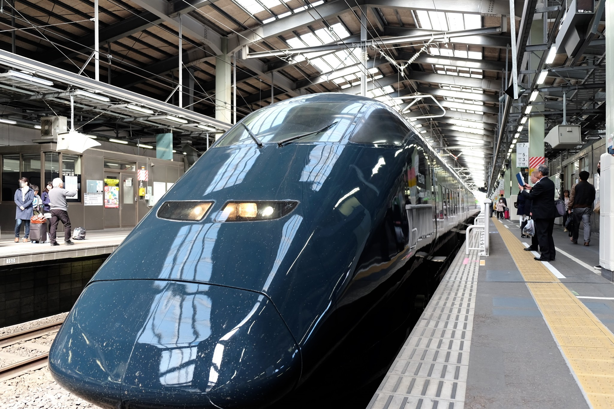 E3-700 series "Genbi Shinkansen" set R19 at Niigata Station